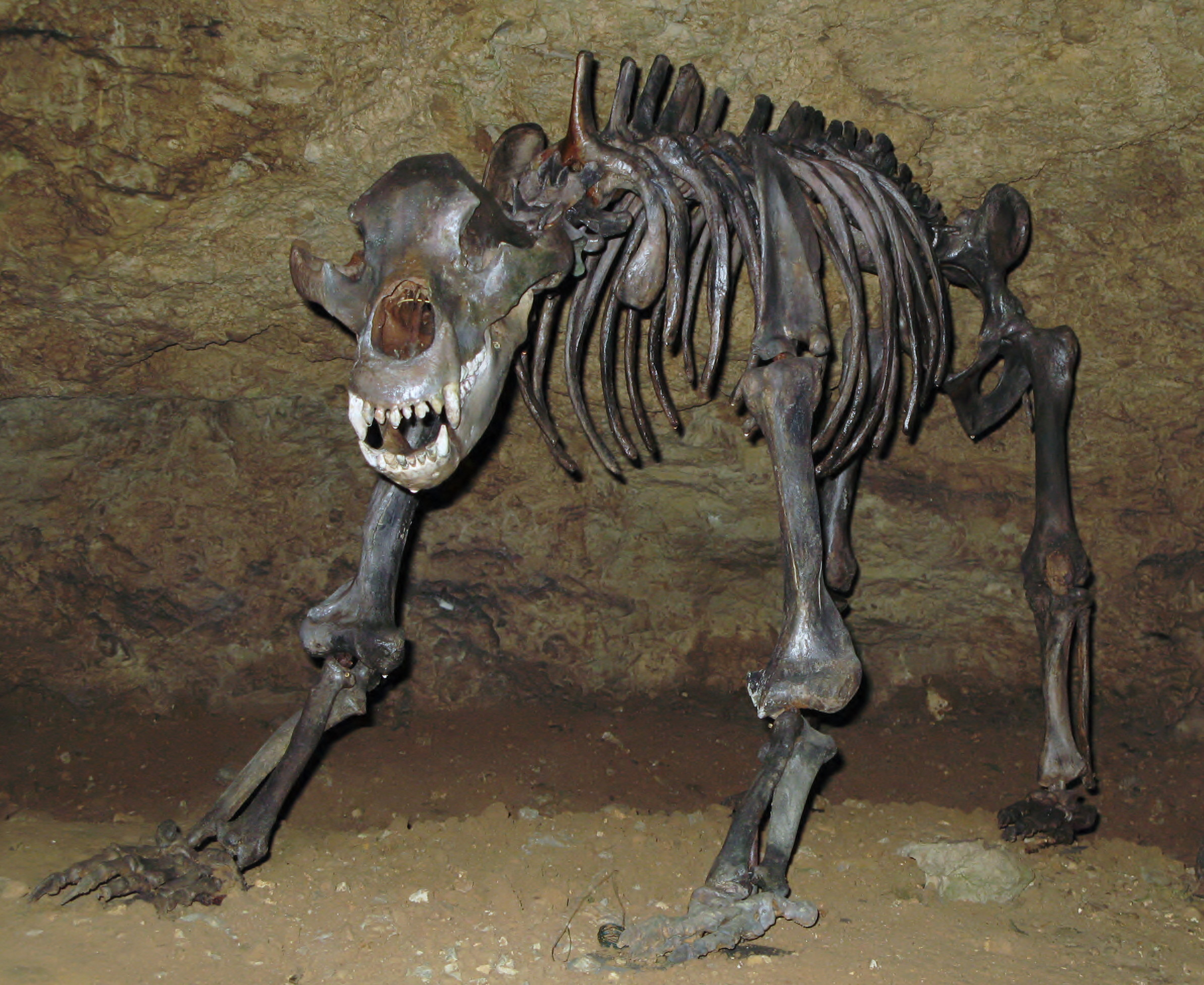 Cave bear, to see in three-fourths profile - exposed in the Devil's Cave (near Pottenstein)